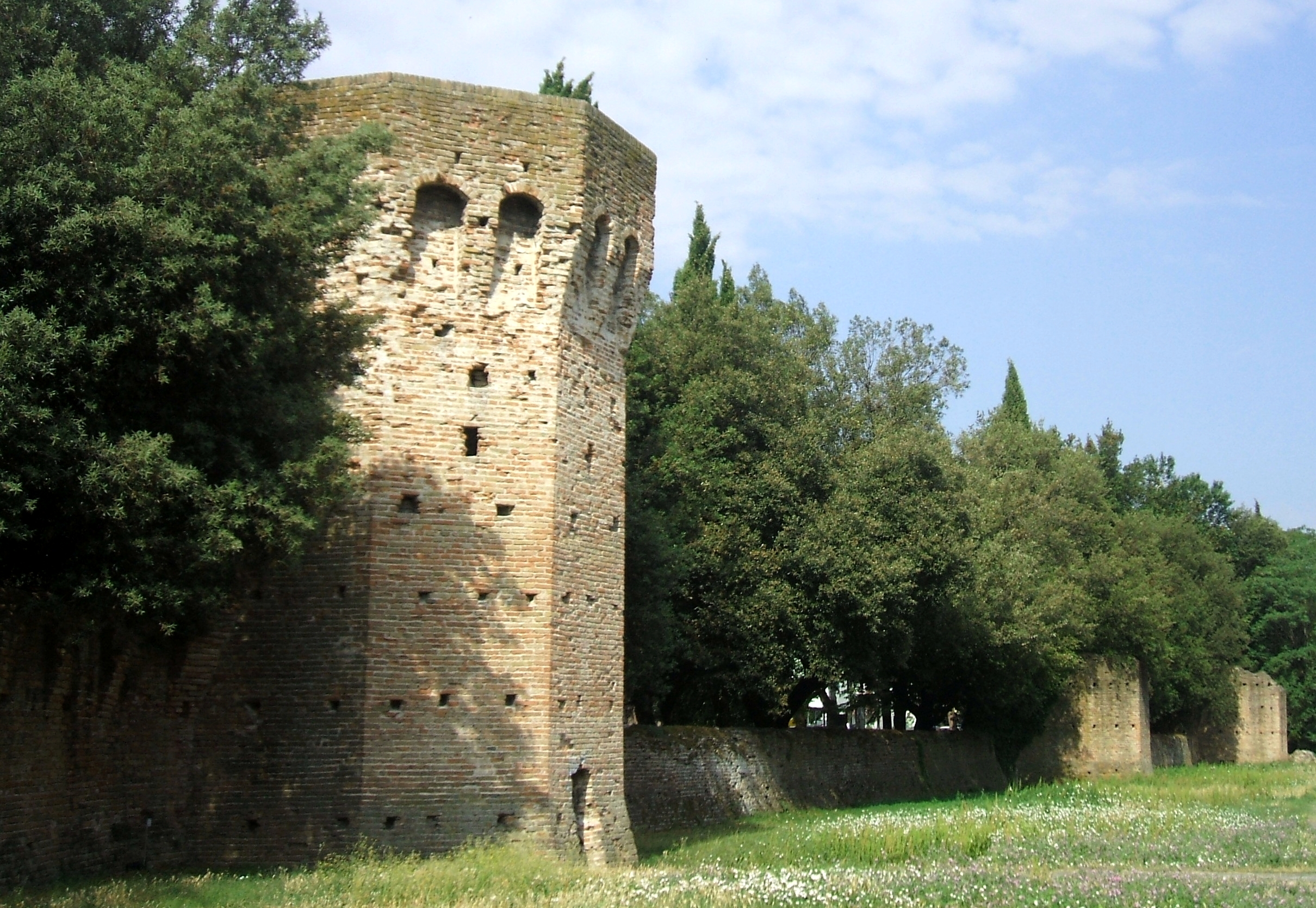 Borgo San Giuliano ancient walls in Rimini, Italy